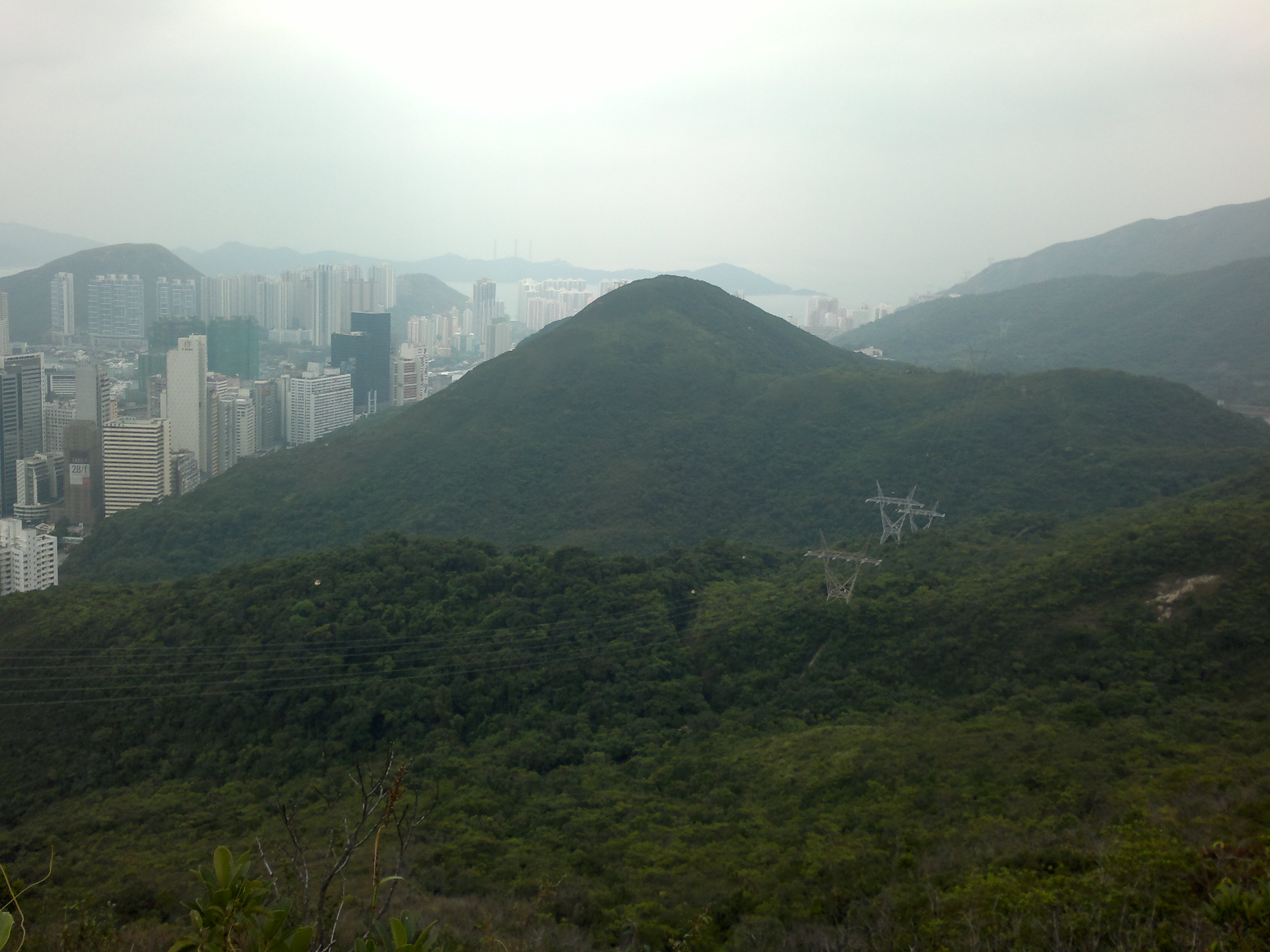 Bennet's Hill viewed from Middle Gap